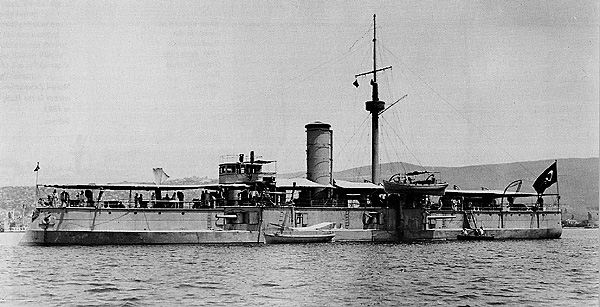 Ottoman ironclad Muin-i Zafer during the demonstration of the Ottoman Navy Salonica, 25 May - 12 June 1911